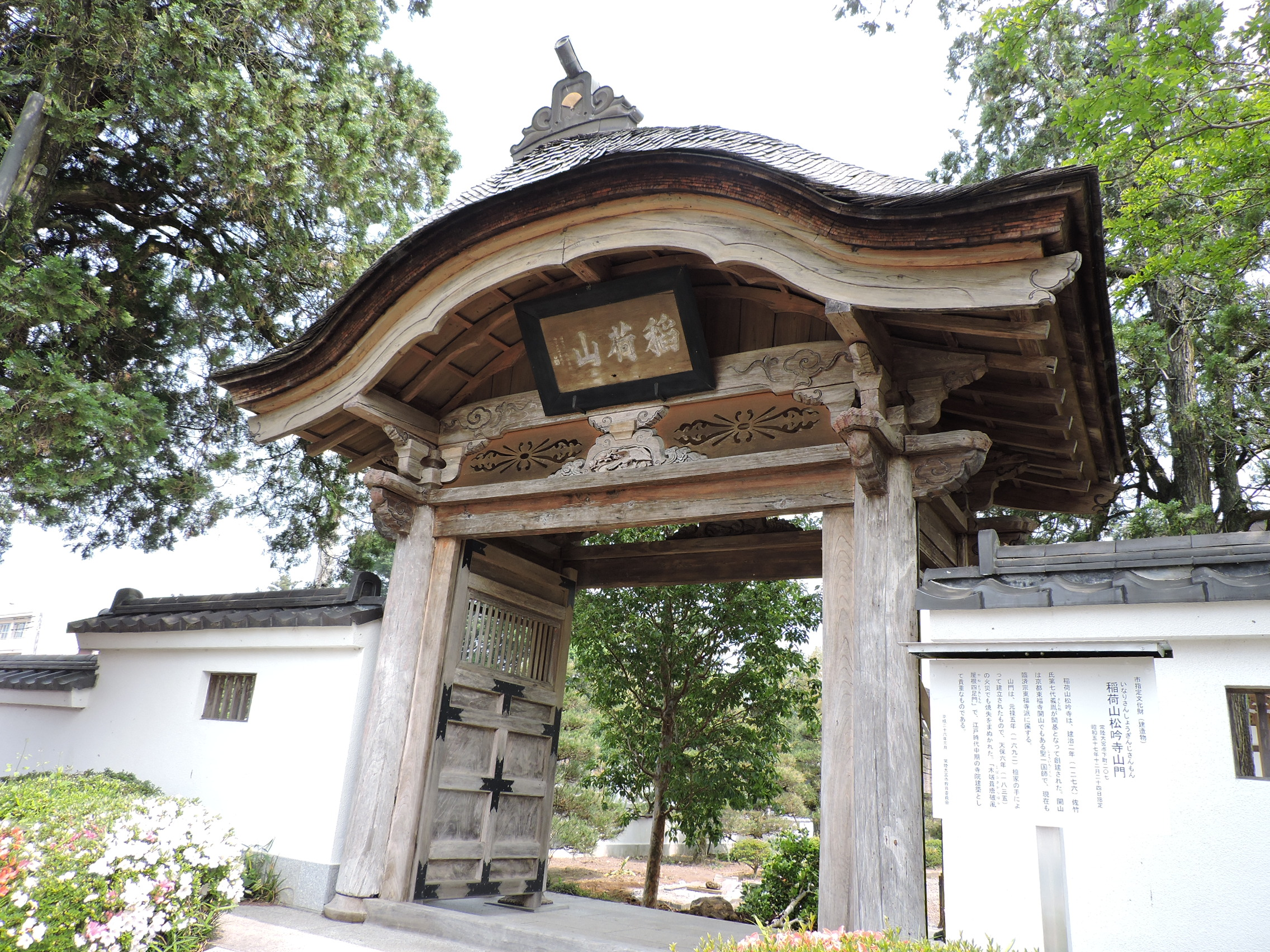 松吟寺山門